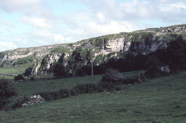 Kilcorney. In the cliff is the entrance to the Cave of the Wild Horses, a place of Burren legend. The valley can flood suddenly after very heavy rain.